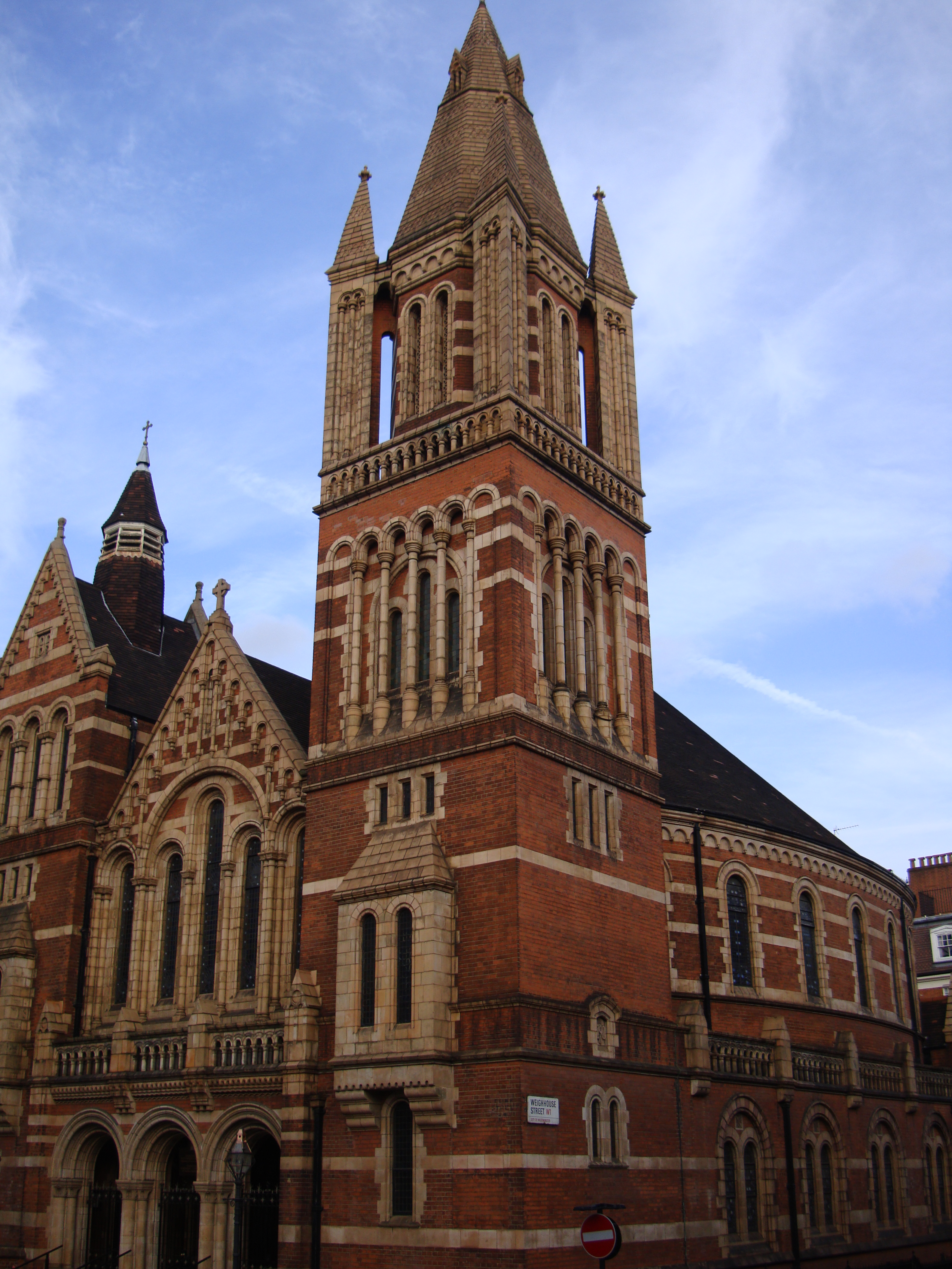 Photograph of the Ukrainian Catholic Cathedral, London